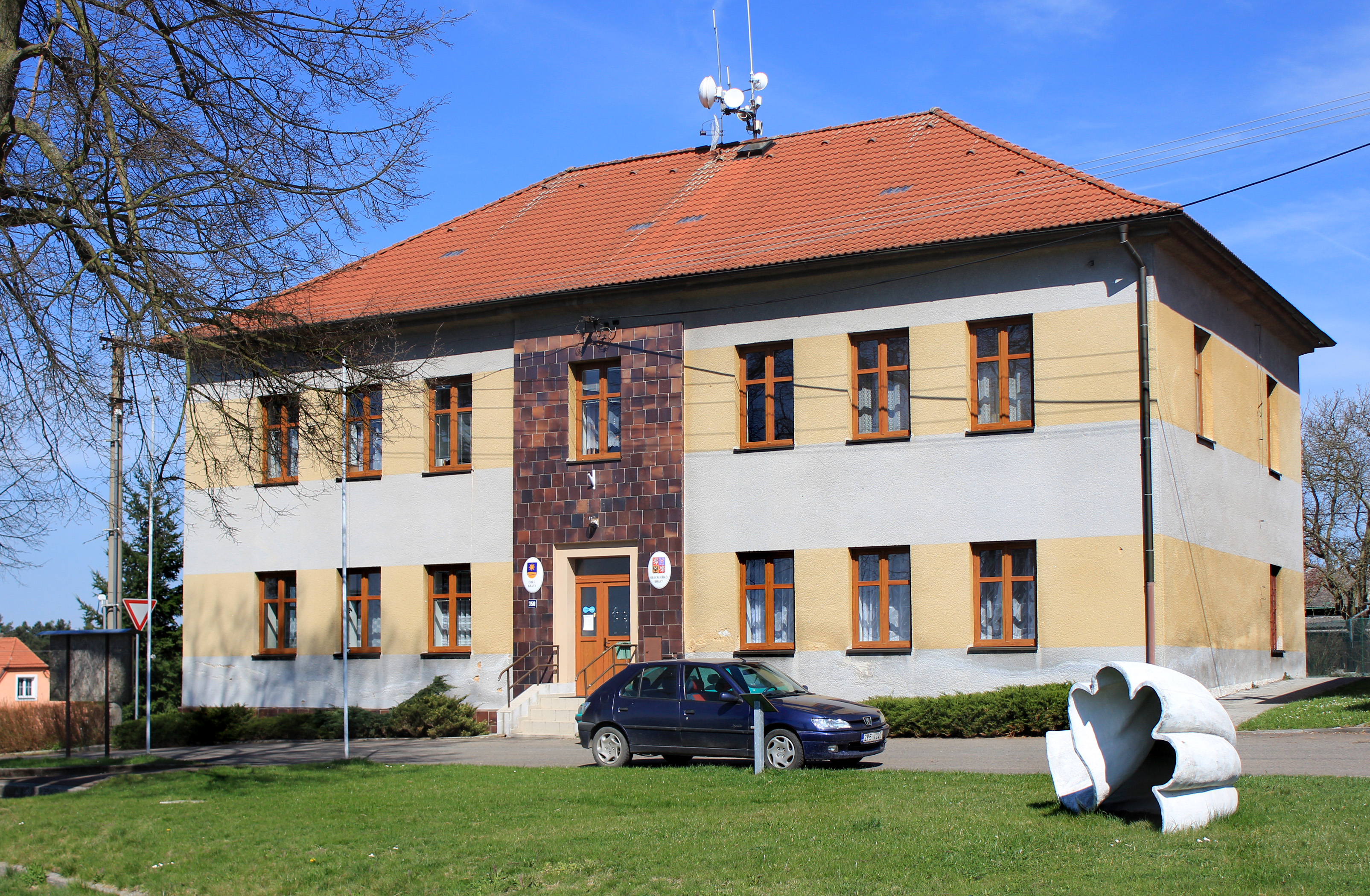 Municipal office in Břasy, Czech Republic.